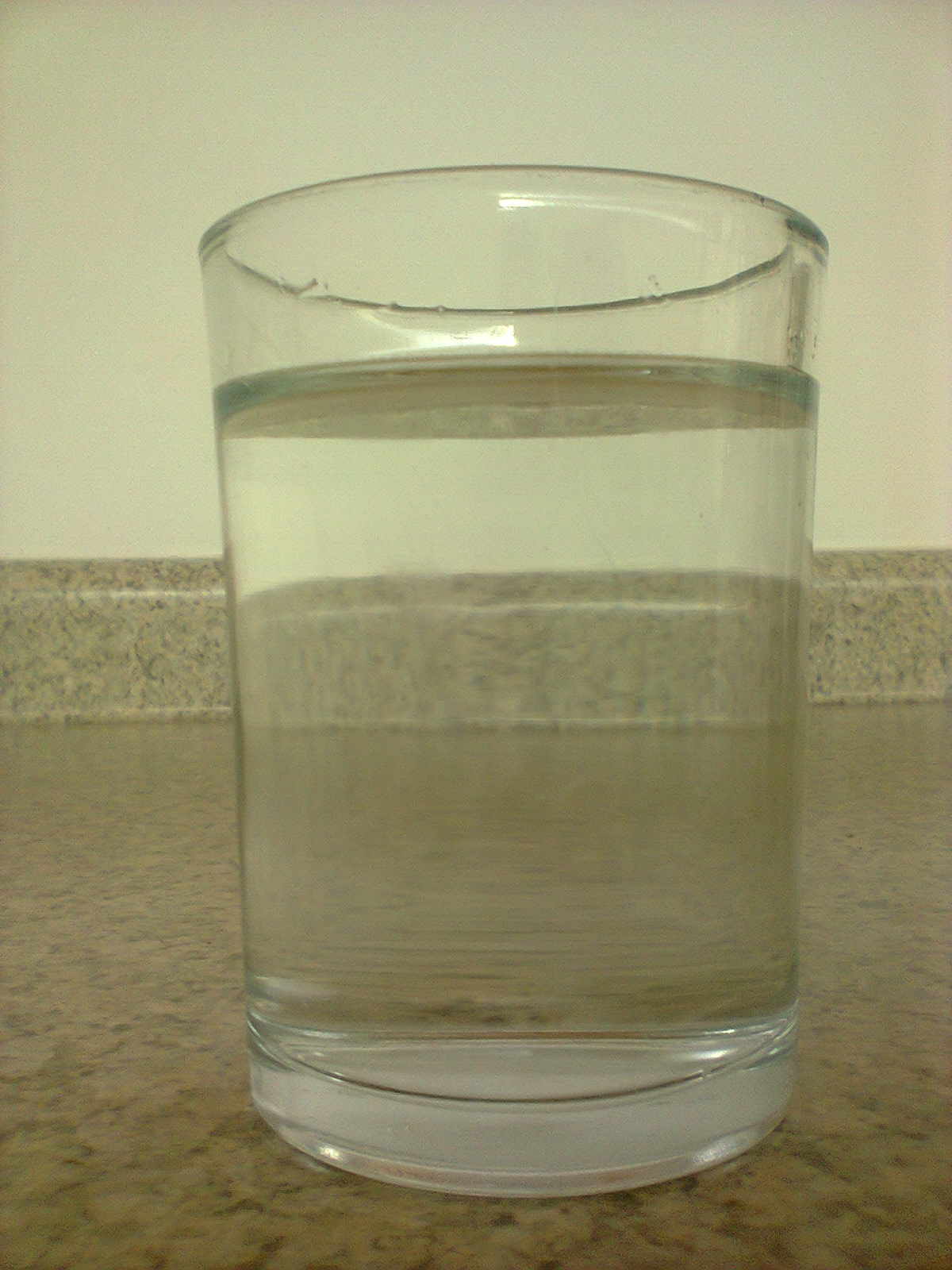 Lo ideal es beber 2 litro de agua natural al día.